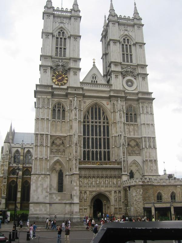 (c) 2005, Niels Elgaard Larsen.